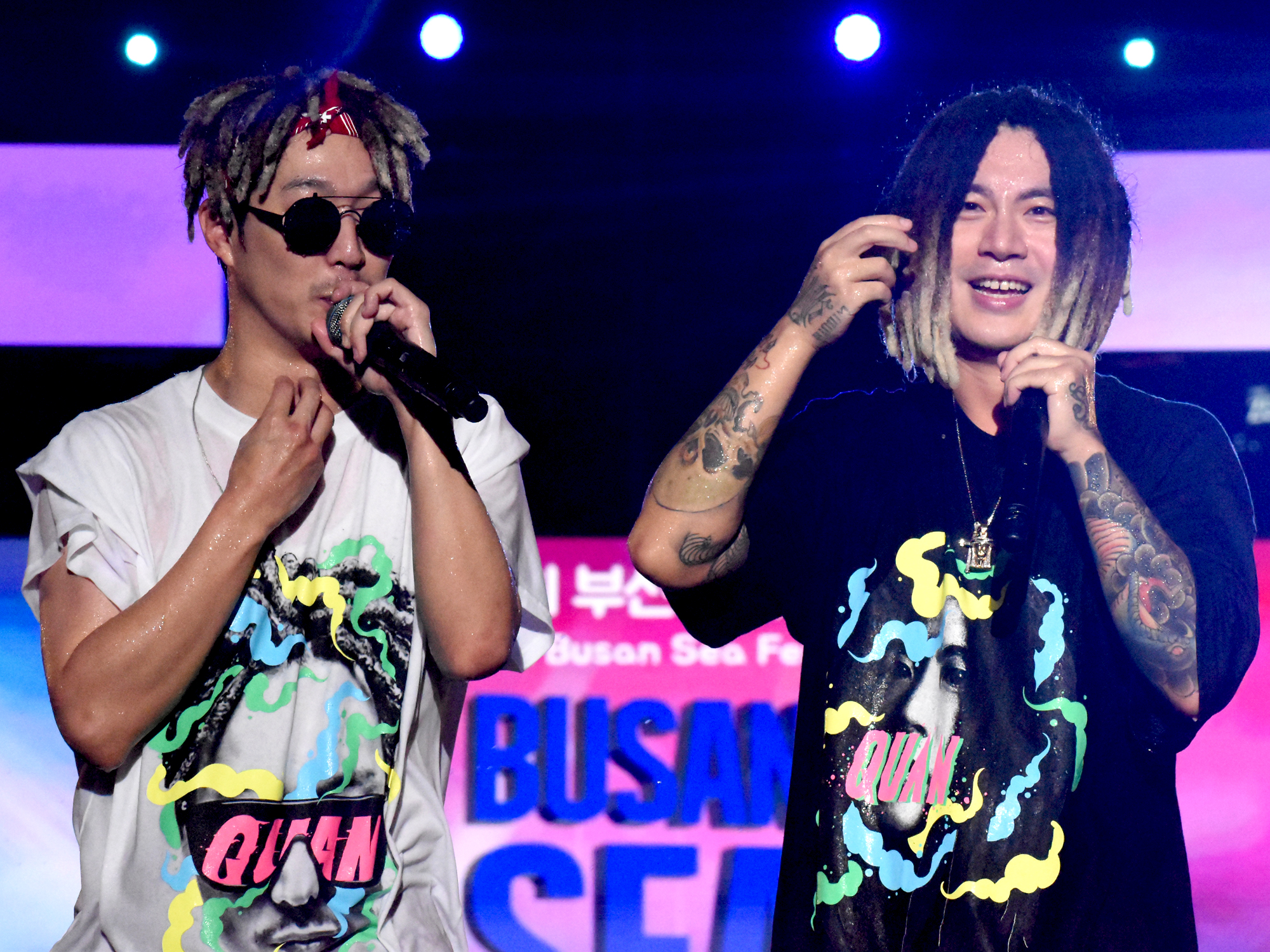 RPR at the 23rd Busan Sea Festival in Haeundae on August 2, 2018.